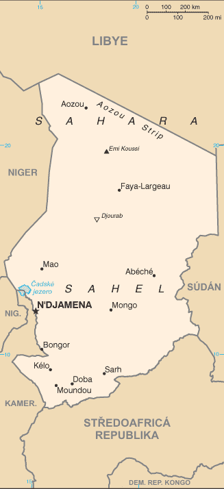 Map of Chad with Czech description.